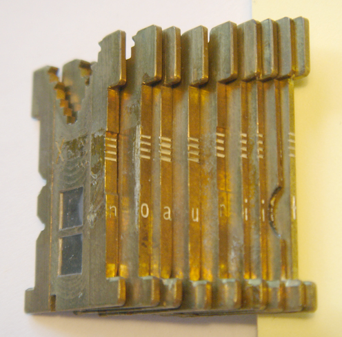 Sideview of Intertype-Fotomatic Fotomats